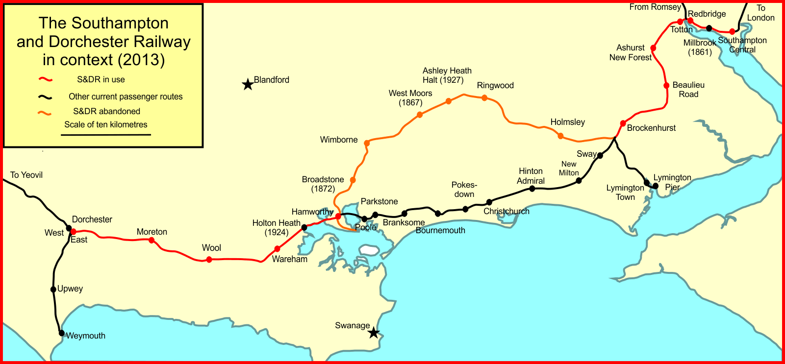 Map of the Southampton and Dorchester Railway England against current 2013 railways